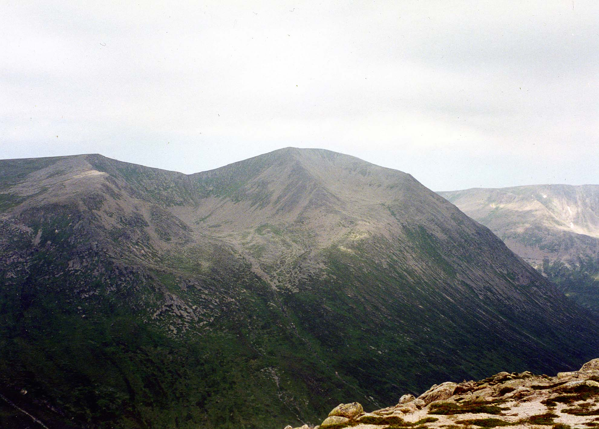 Personal picture taken by Mick Knapton